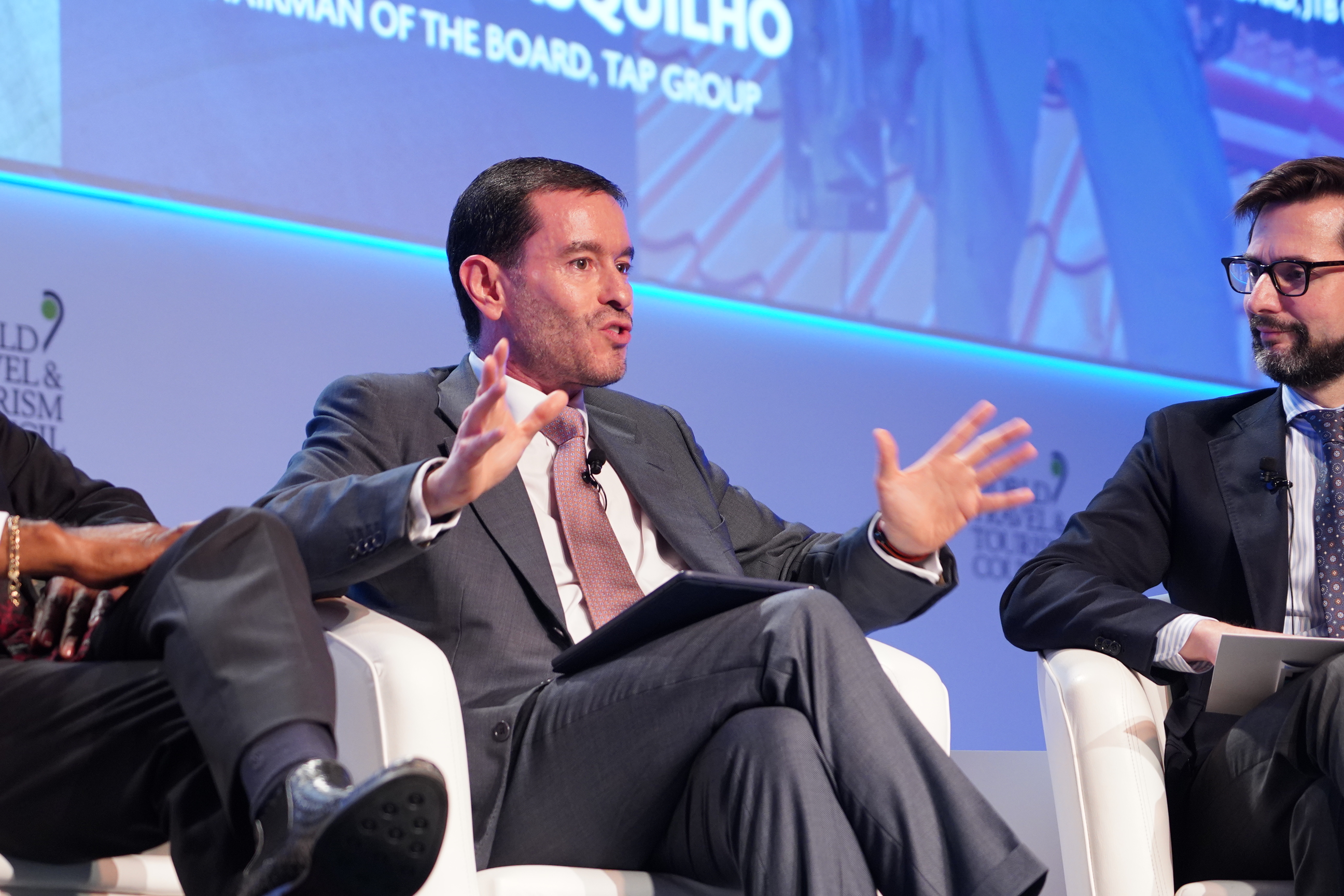 Miguel Frasquilho, Chairman of the Board, TAP Group